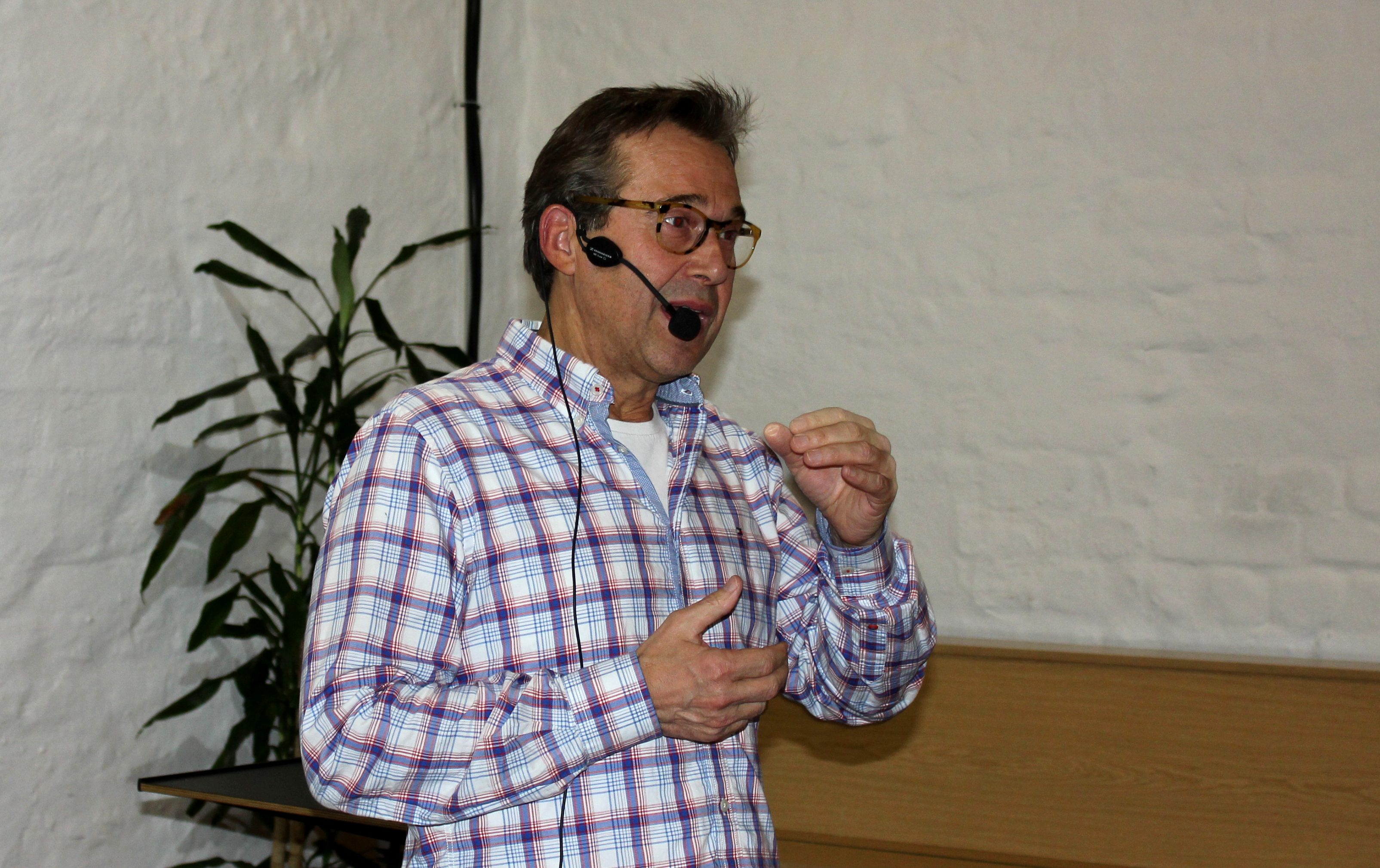 Flemming Enevold is a danish actor, singer and director.